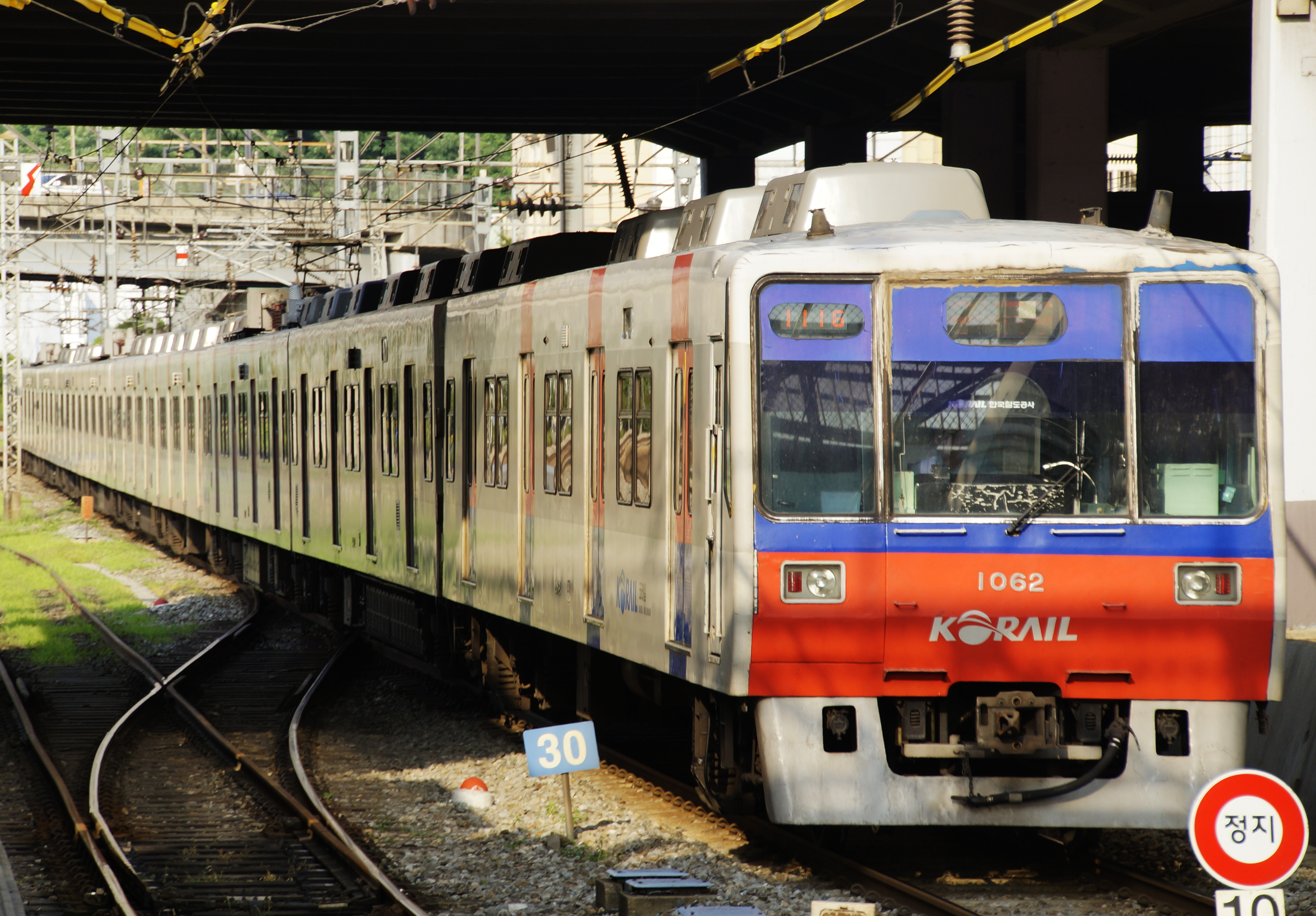 Yongsan-bound Korail Line 1 Yongsan-Dongincheon express train of Korail 1000-series cars (trainset 1x62)leaving Noryangjin.